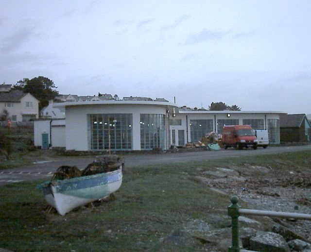 Caffi Morannedd Cafe Criccieth Designed by Clough Williams-Ellis, architect of Portmeirion and the Snowdon summit cafe, currently being demolished and replaced. Refurbishment is also going on at Morannedd Cafe.